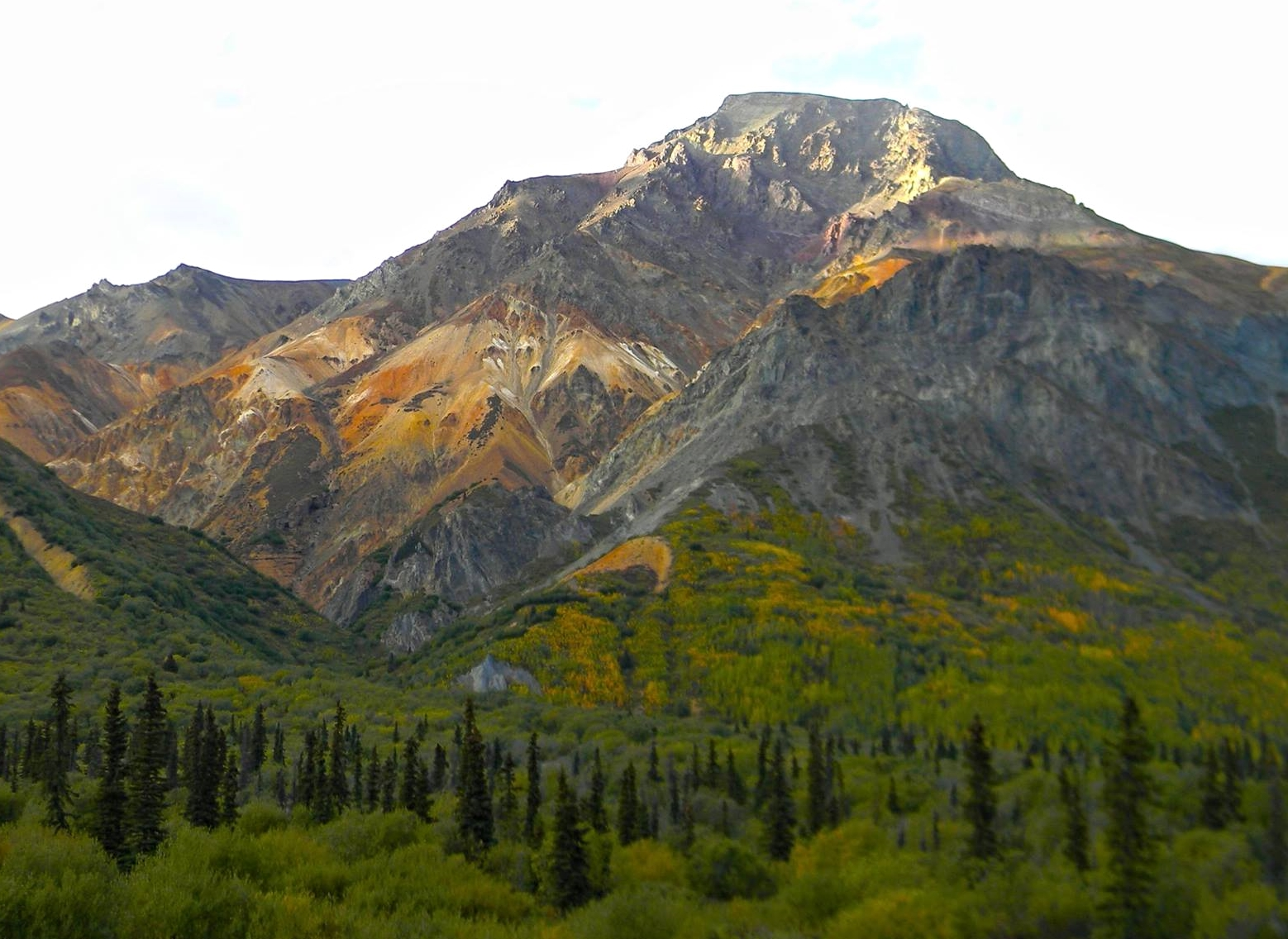 The drive along the Glenn Highway with Sheep Mountain. Early drops in temperature has created golds and reds in both the valley floors and mountainsides. Credit: Carol Teitzel